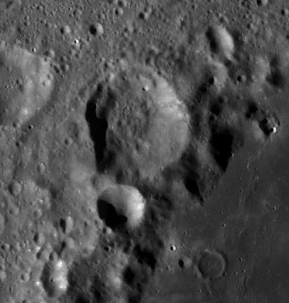 Tereshkova is the large crater in the center. 24-km Tereshkova U is partially visible along the upper left margin. The younger 15-km diameter crater below Tereshkova is not named. The dark feature in the lower right corner is part of the floor of Mare Moscoviense.